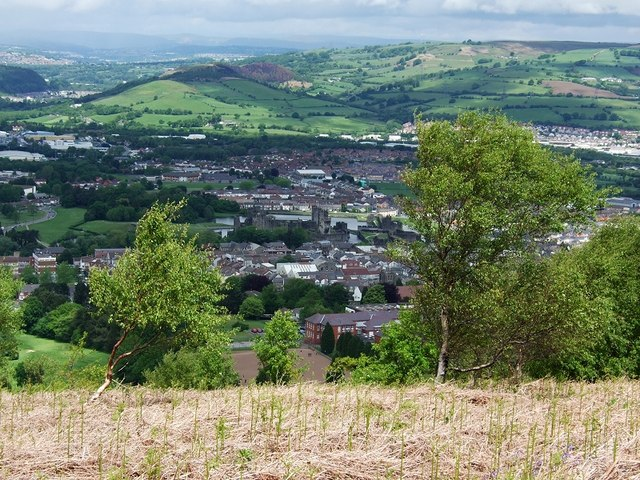 Caerphilly Mountain Caerphilly Castle can be seen between the trees. Looking towards Llanbradach and Ystrad Mynach on the horizon.